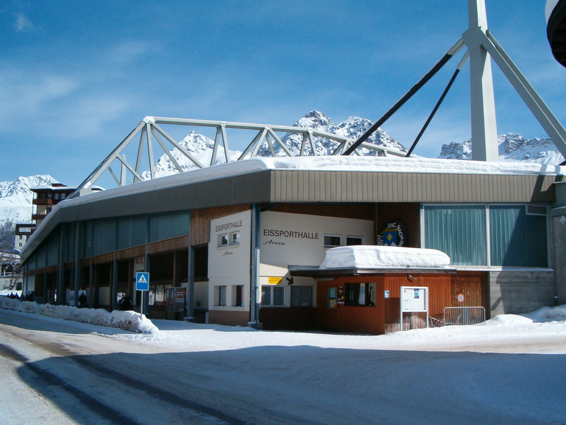 Hockeyarena Eissporthalle Obersee, Arosa, before 2011